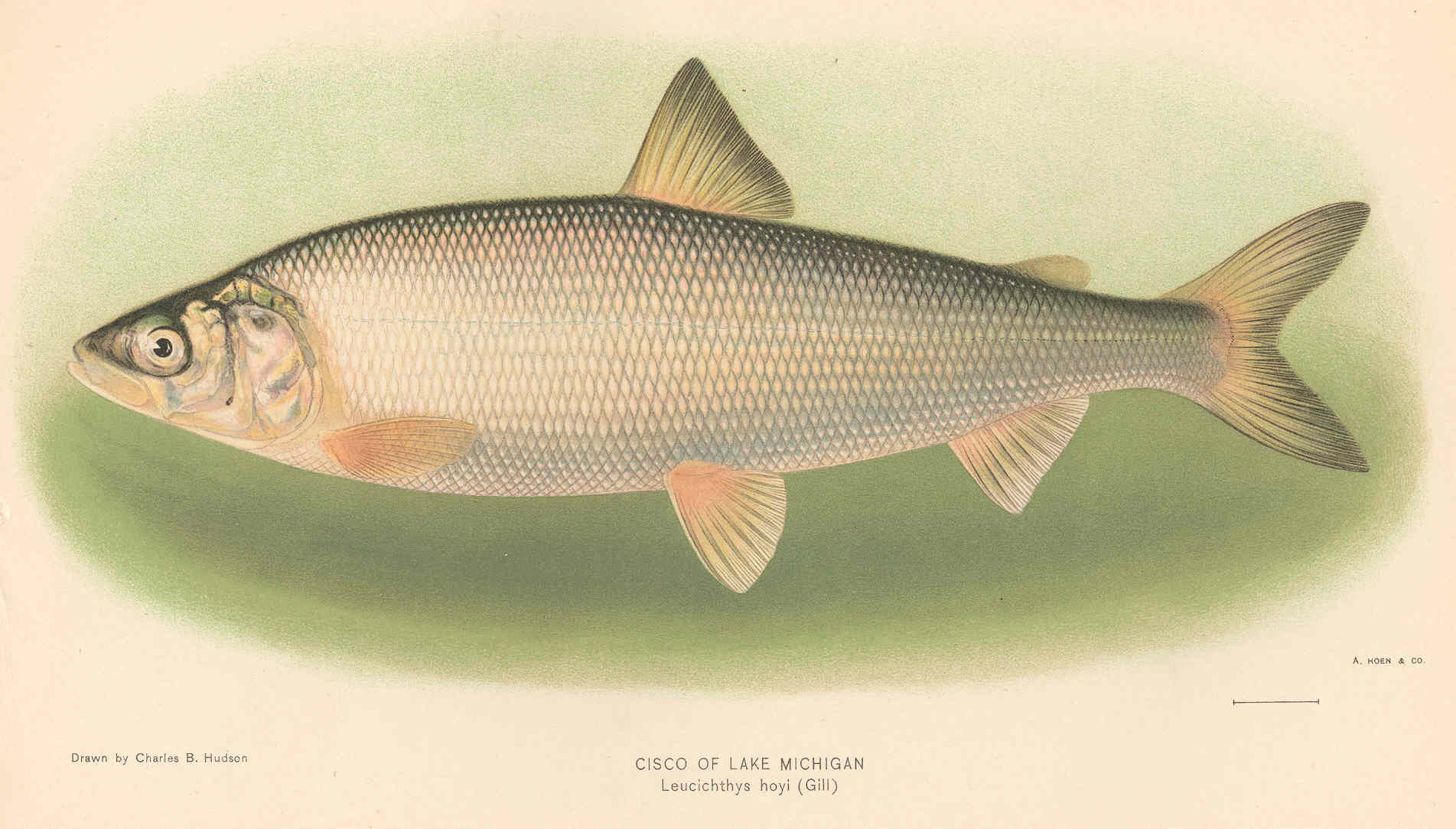 Cisco of Lake Michigan : Leucichthys hoyi (Gill) Subject: Leucichthys hoyi, Coregonus Tag: Fish